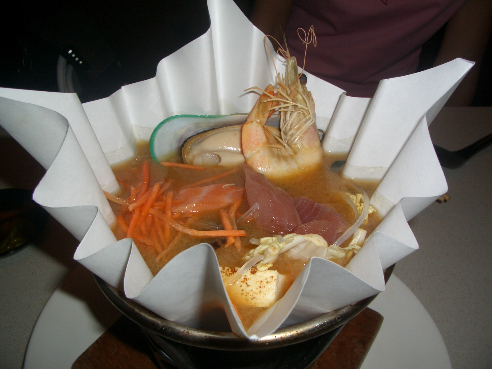 'Paper steamboat' is one of the items of the Sakae Sushi menu.